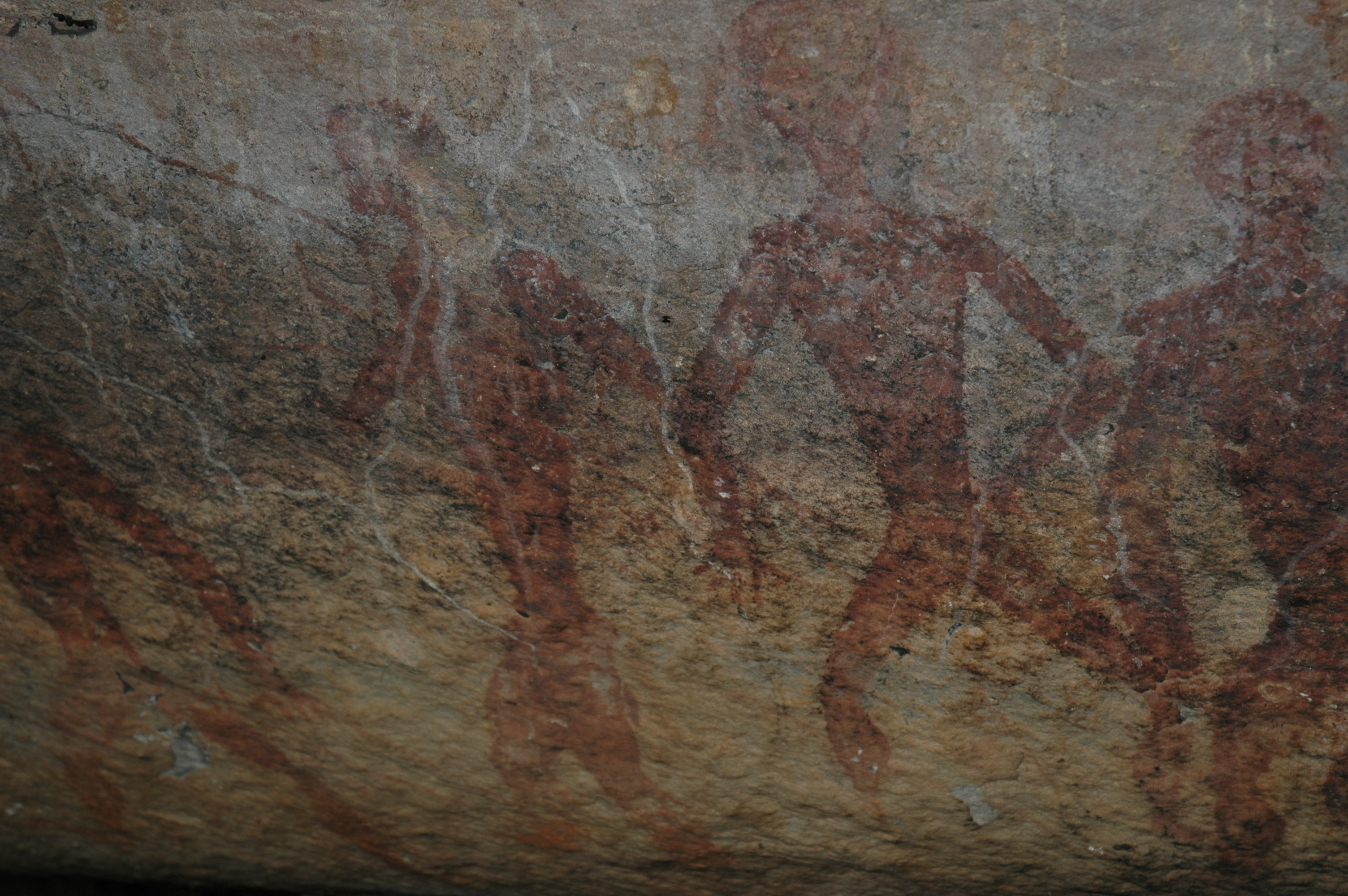 Tham Khon, Hoehle der Menschen, Pru Phrabat Historical Park, Udon Thani, Thailand